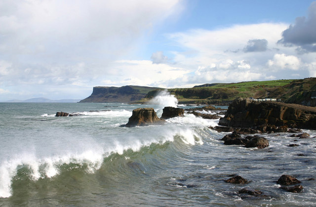 Ballycastle waves Taken from the bridge linking Ballycastle beach to the rocks